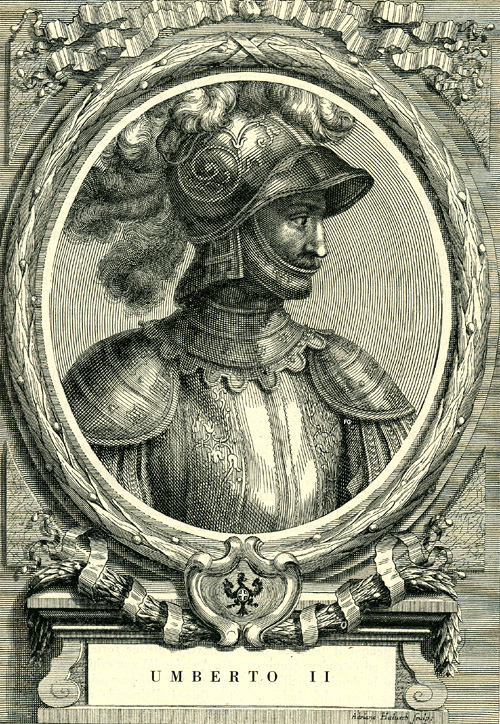 Humbert II of Savoy